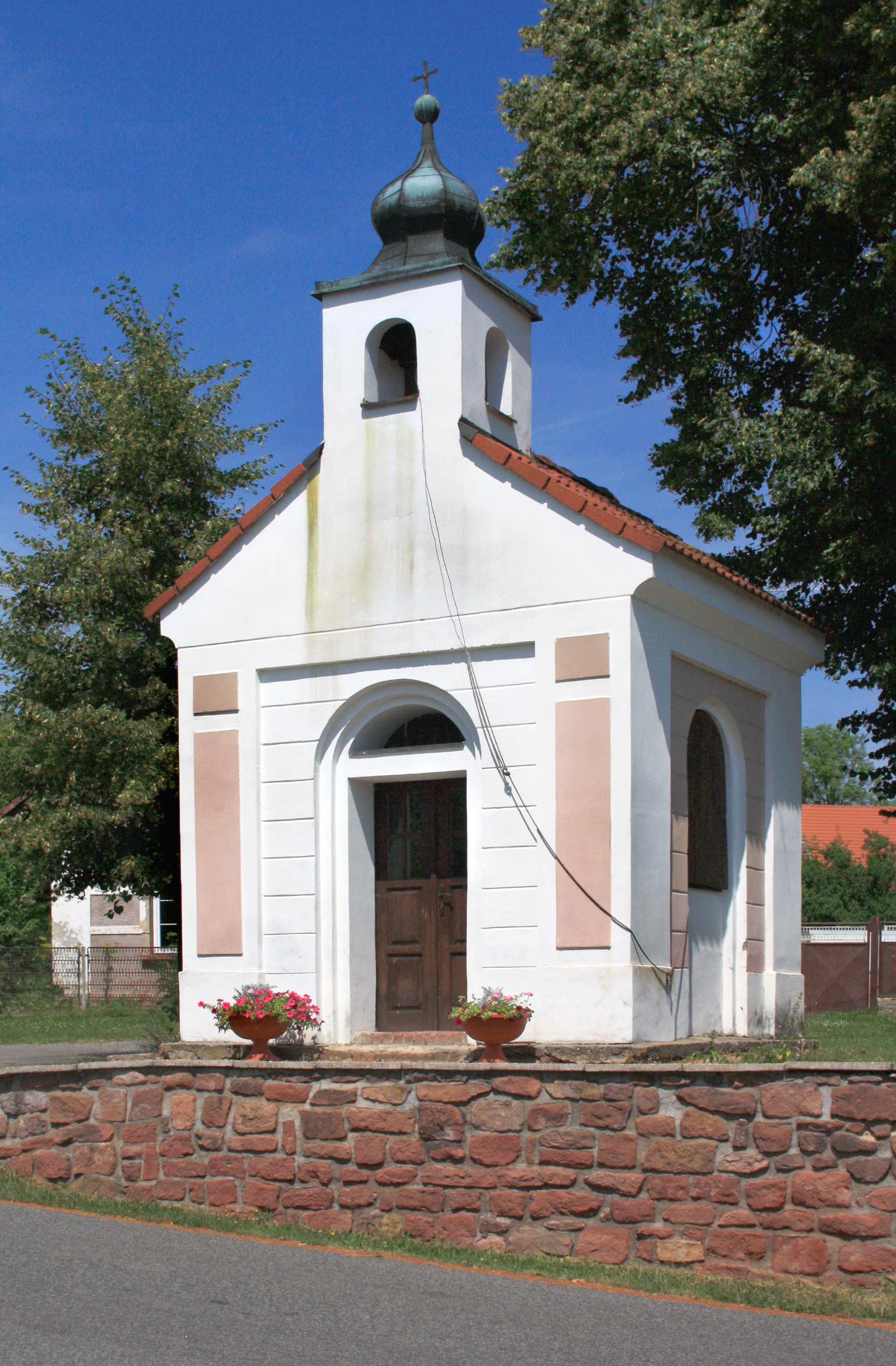 Chappel in Oplany, Czech Republic